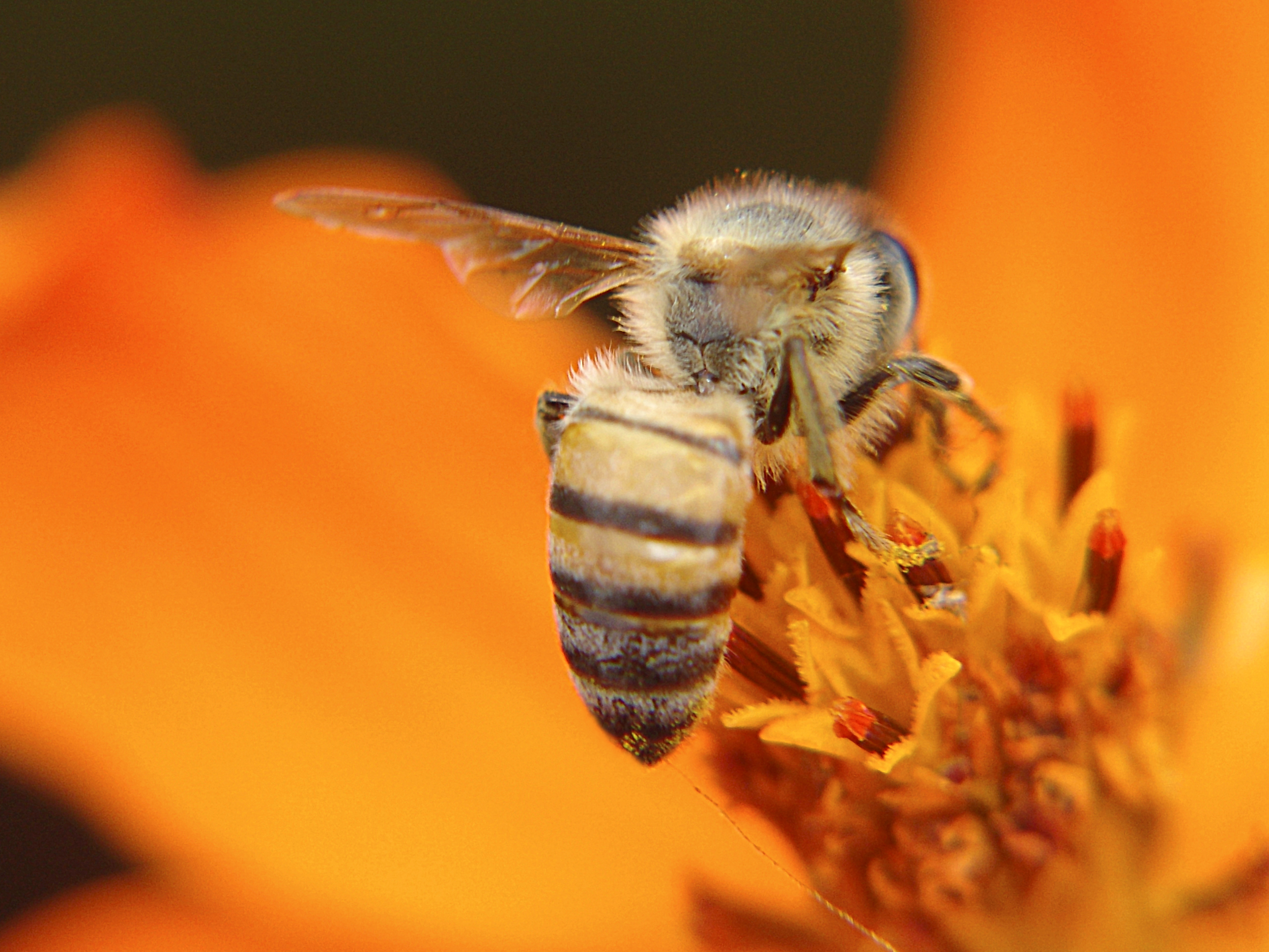 Bee on a flower.